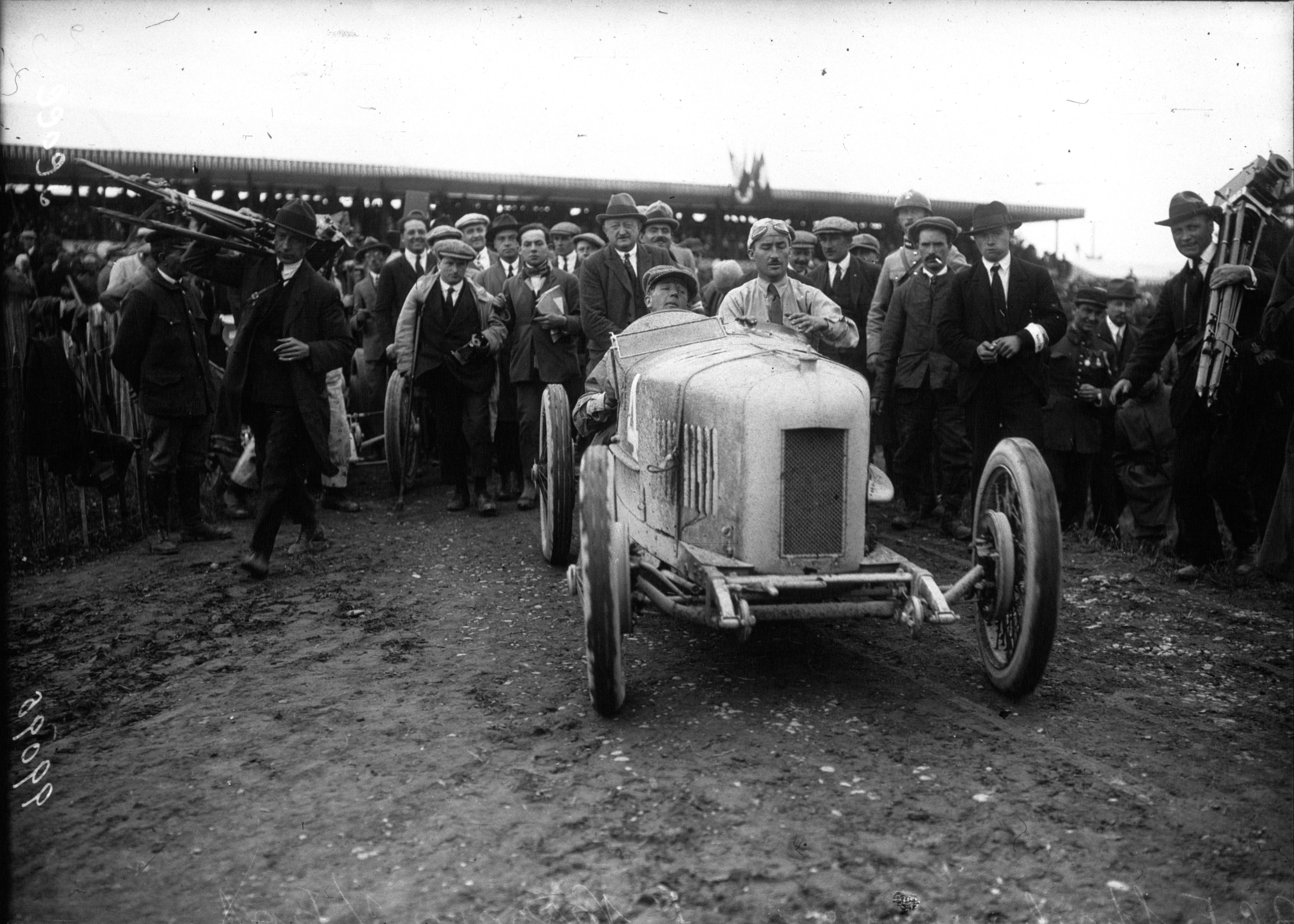 Felice Nazzaro at the 1922 French Grand Prix